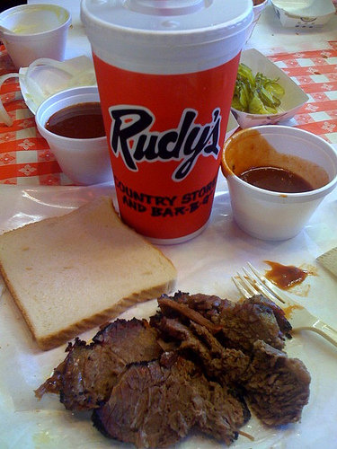 Food served at Rudy's Country Store and Bar-B-Q